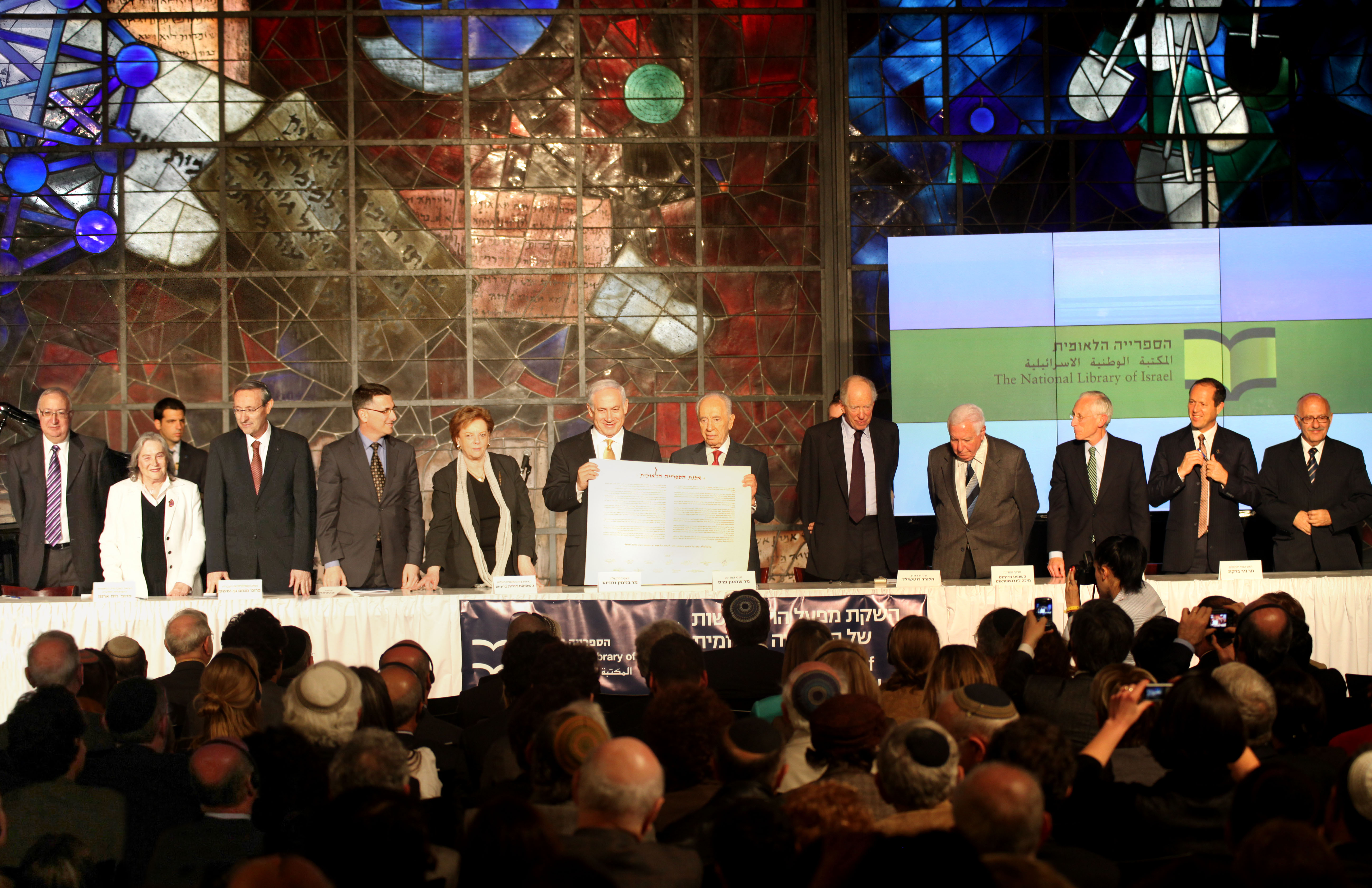 The National Library of Israel Charter signing ceremony